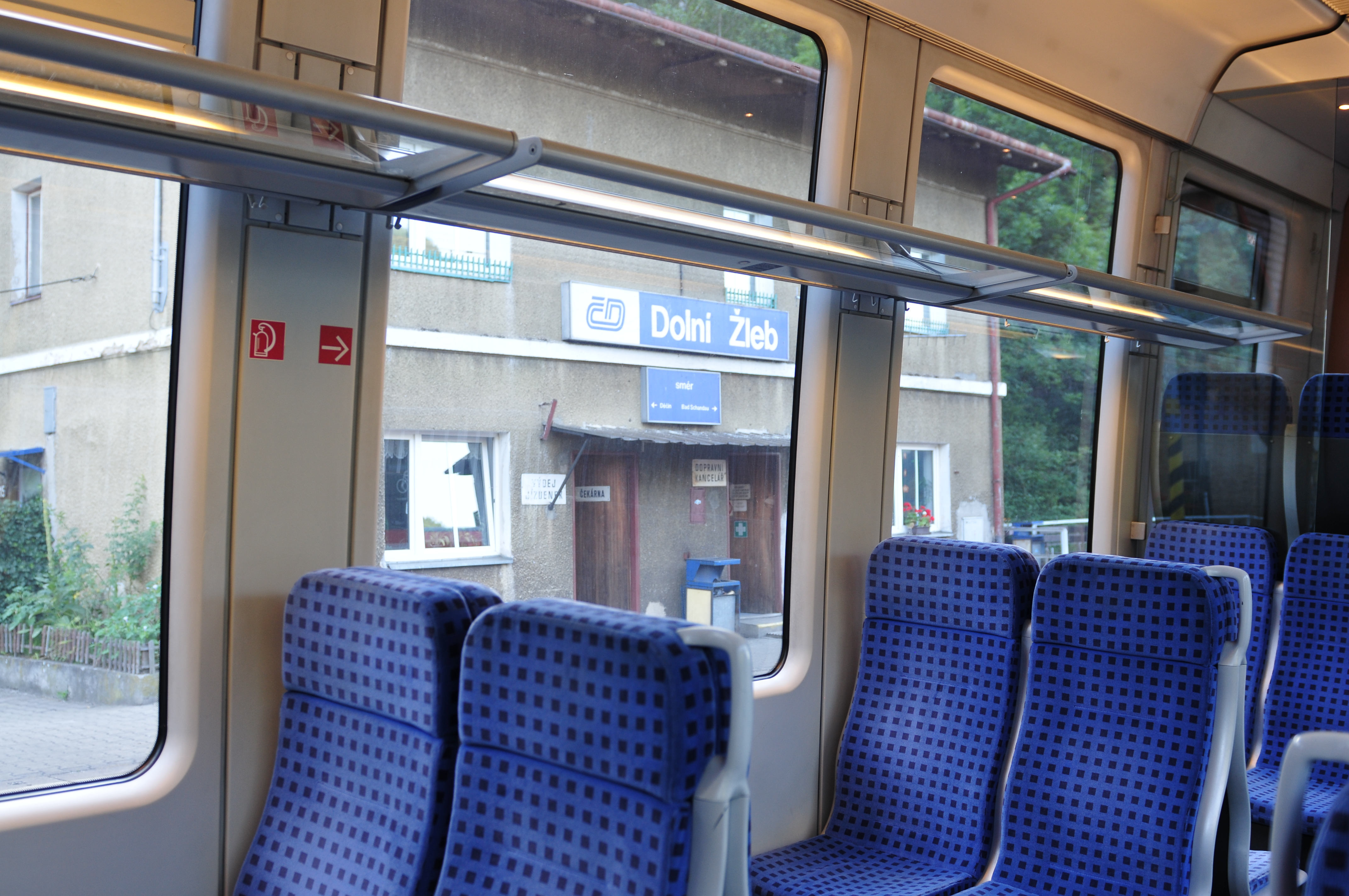 Dolní Žleb railway station as seen from within a regional train